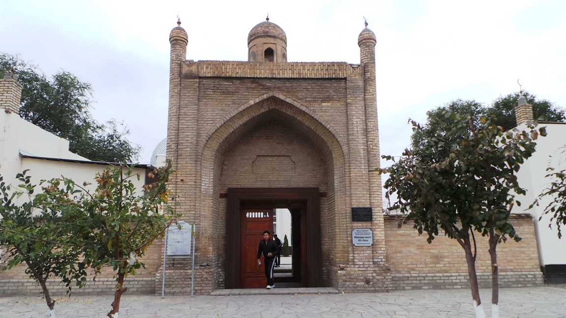 Abdukadyr Mosque